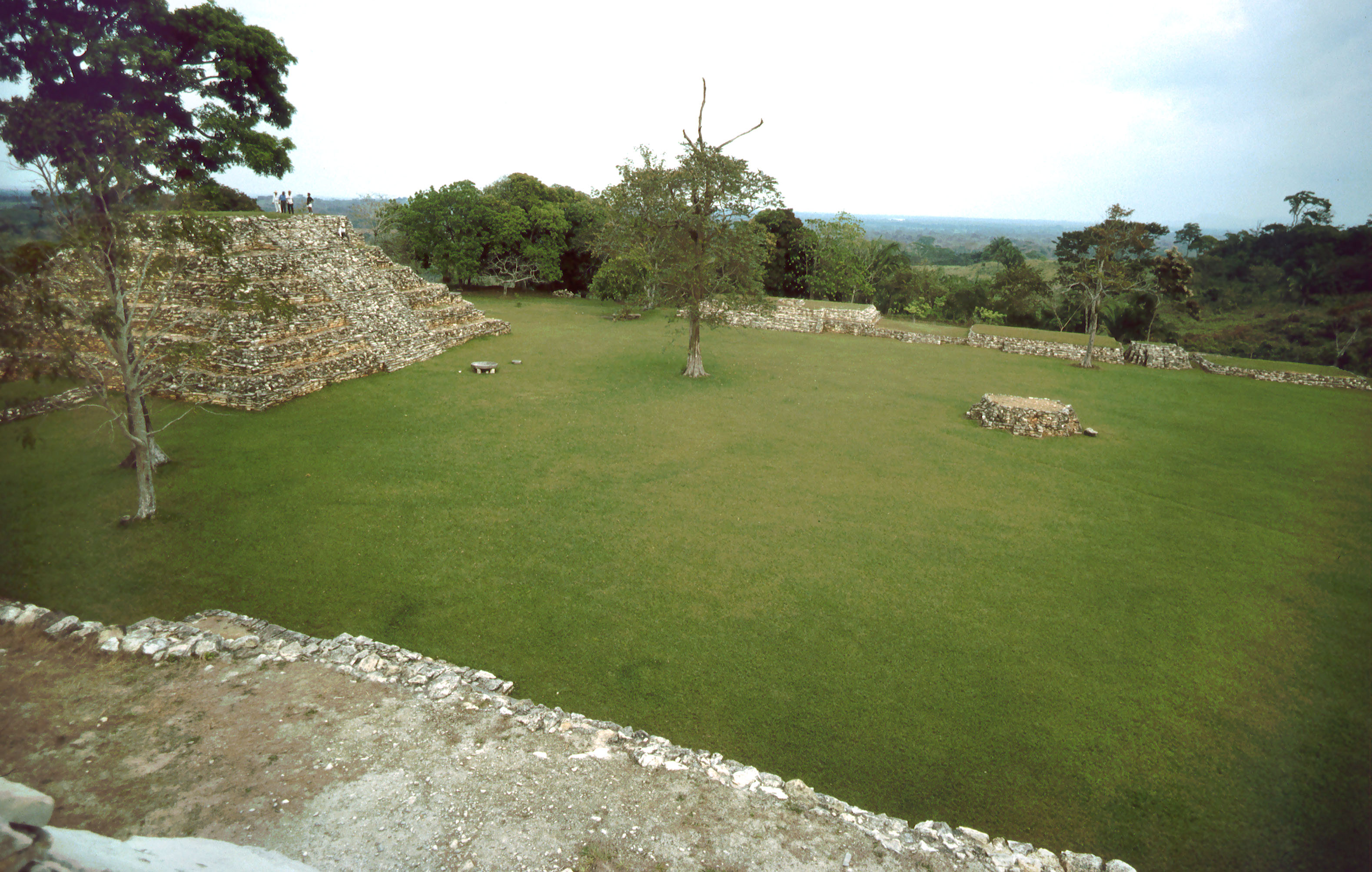 Pomoná, Tabasco, Mexico.